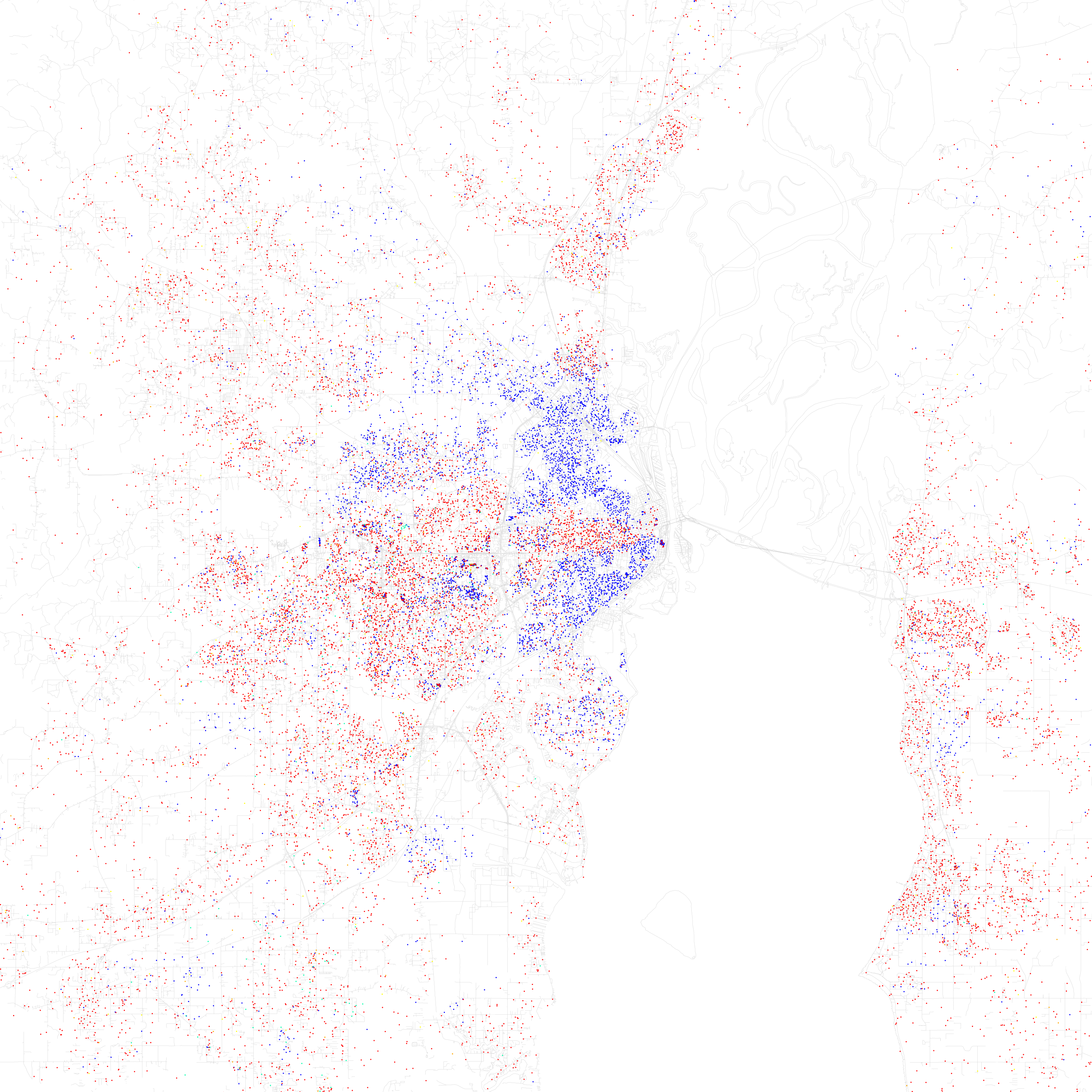 Maps of racial and ethnic divisions in US cities, inspired by Bill Rankin's map of Chicago, updated for Census 2010. Red is White, Blue is Black, Green is Asian, Orange is Hispanic, Yellow is Other, and each dot is 25 residents. Data from Census 2010. Base map © OpenStreetMap, CC-BY-SA